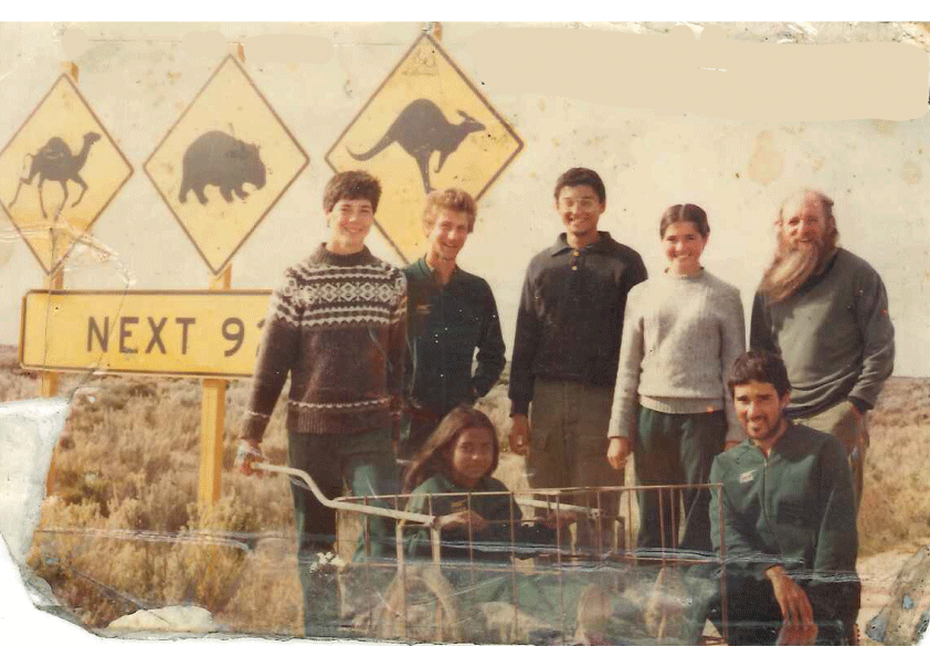 Gary McKay, Robin Dunn, Roland Gianstefani, Christine McKay, Rachel Sukamaran and Dane Frick walking 1000 miles across the Nullabor Desert in Australia.